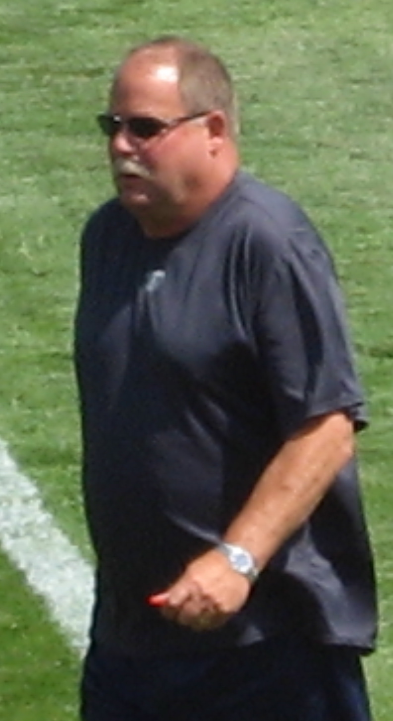 Picture of Seahawks Practice Scrimage at Eastern Washington University, Cheney Washington. Mike Holmgren, Seattle Seahawks Head Coach and savior.